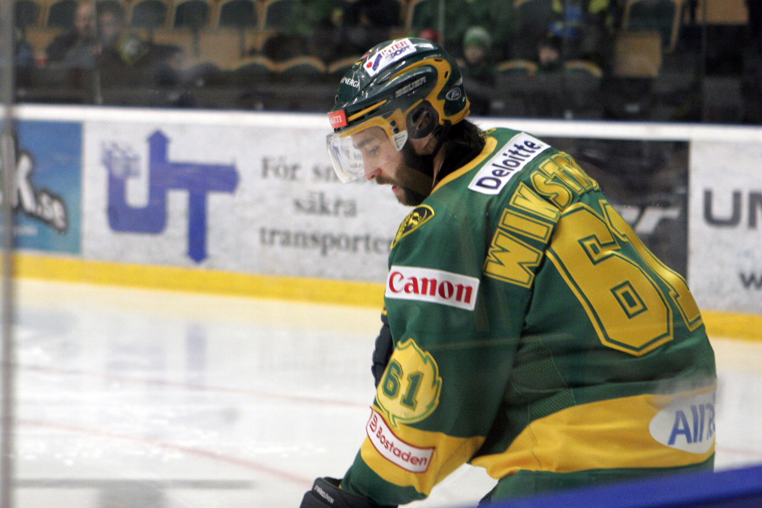 Picture of Johan Wikström in an ice hockey home game for IF Björklöven against IK Oskarshamn (8-2) in Allsvenskan